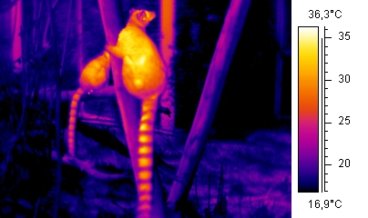 thermographic image of a ringrailed Lemur